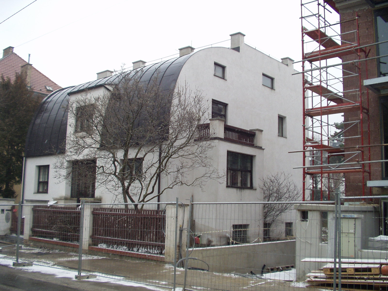 Haus Steiner Architect: Adolf Loos Year: 1910 Vienna, Austria digital photograph taken by heardjoin